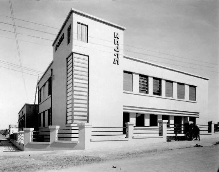 Tel aviv, Architecture of Israel